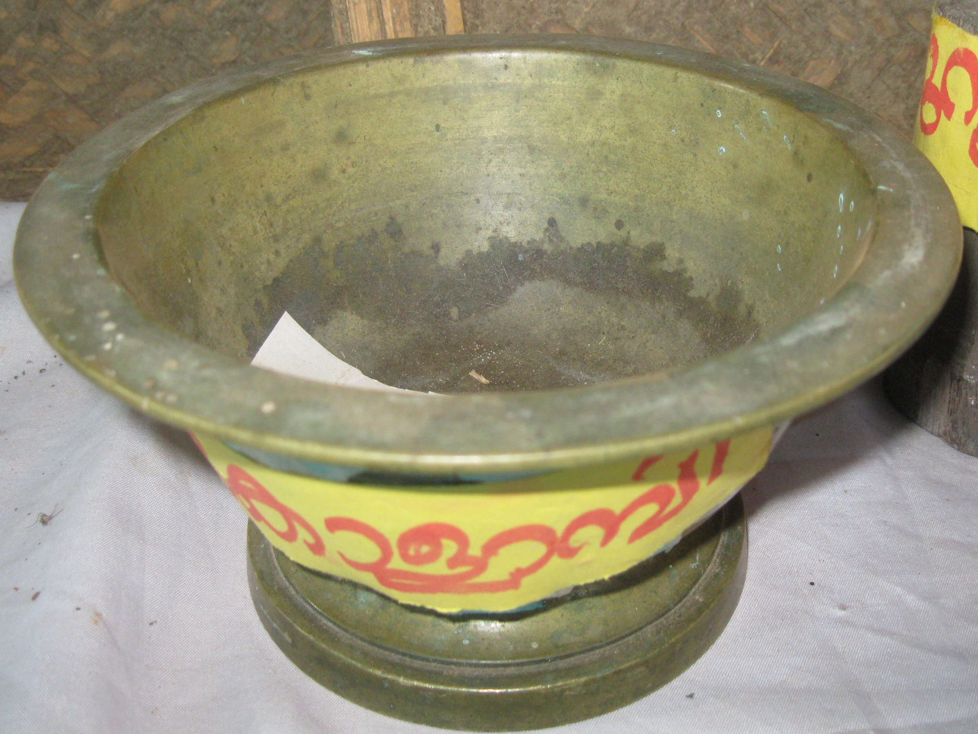 spiting bowl